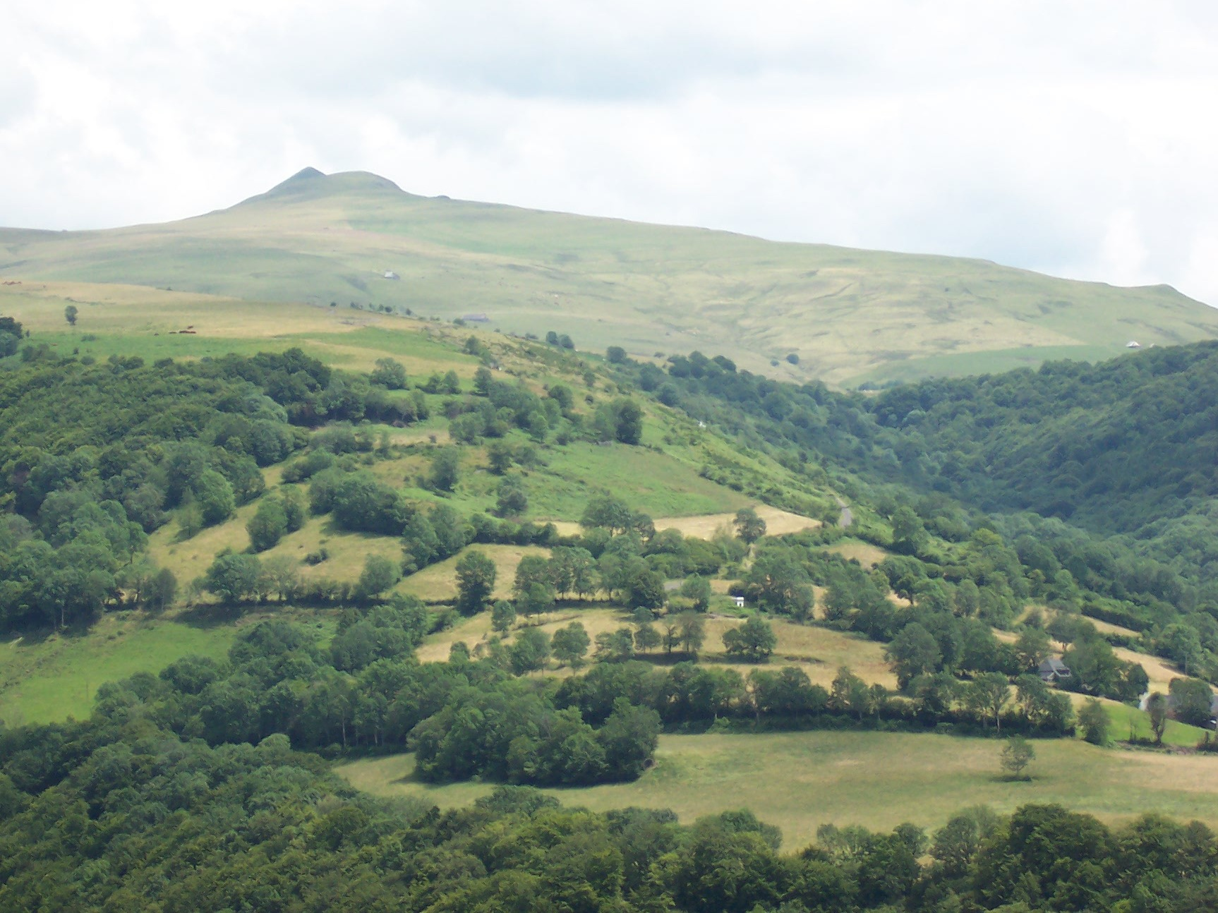 The Puy Violent seen from the city of Salers